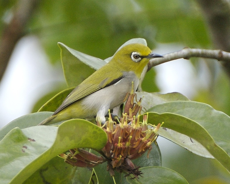 Oriental White-eye (Zosterops palpebrosus ssp Zosterops palpebrosus williamsoni) in a residential garden, Merryn Road, Singapore on 23 December 2007. Local name : Mata Putih (Malay) Indonesian: Burung kaca mata biasa